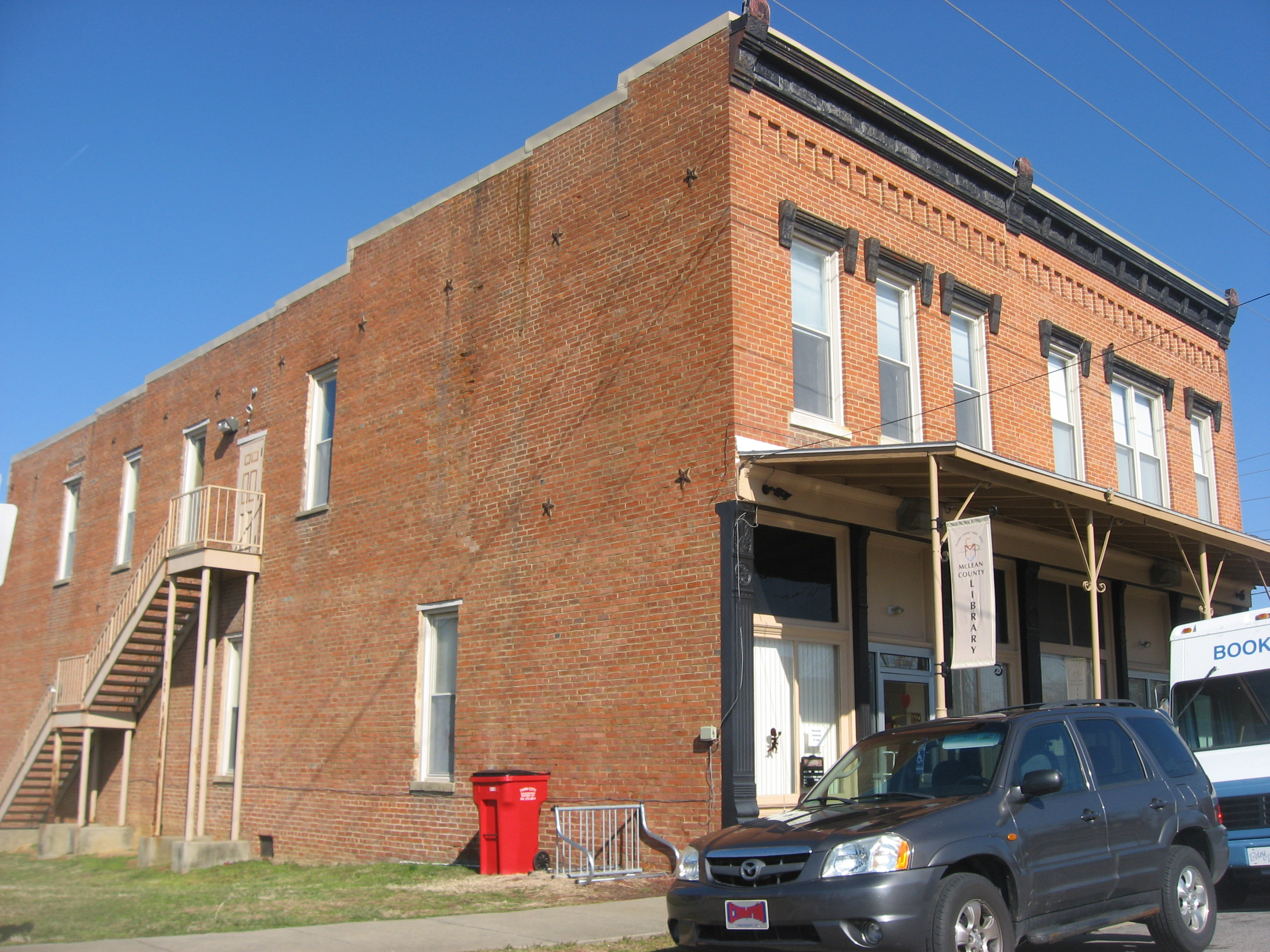 Front and western side of the McLean County Public Library, located at 116 E. Second Street in Livermore, Kentucky, United States.